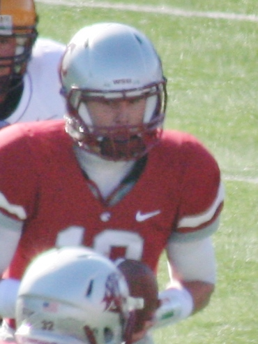 Washington State freshman quarterback Jeff Tuel